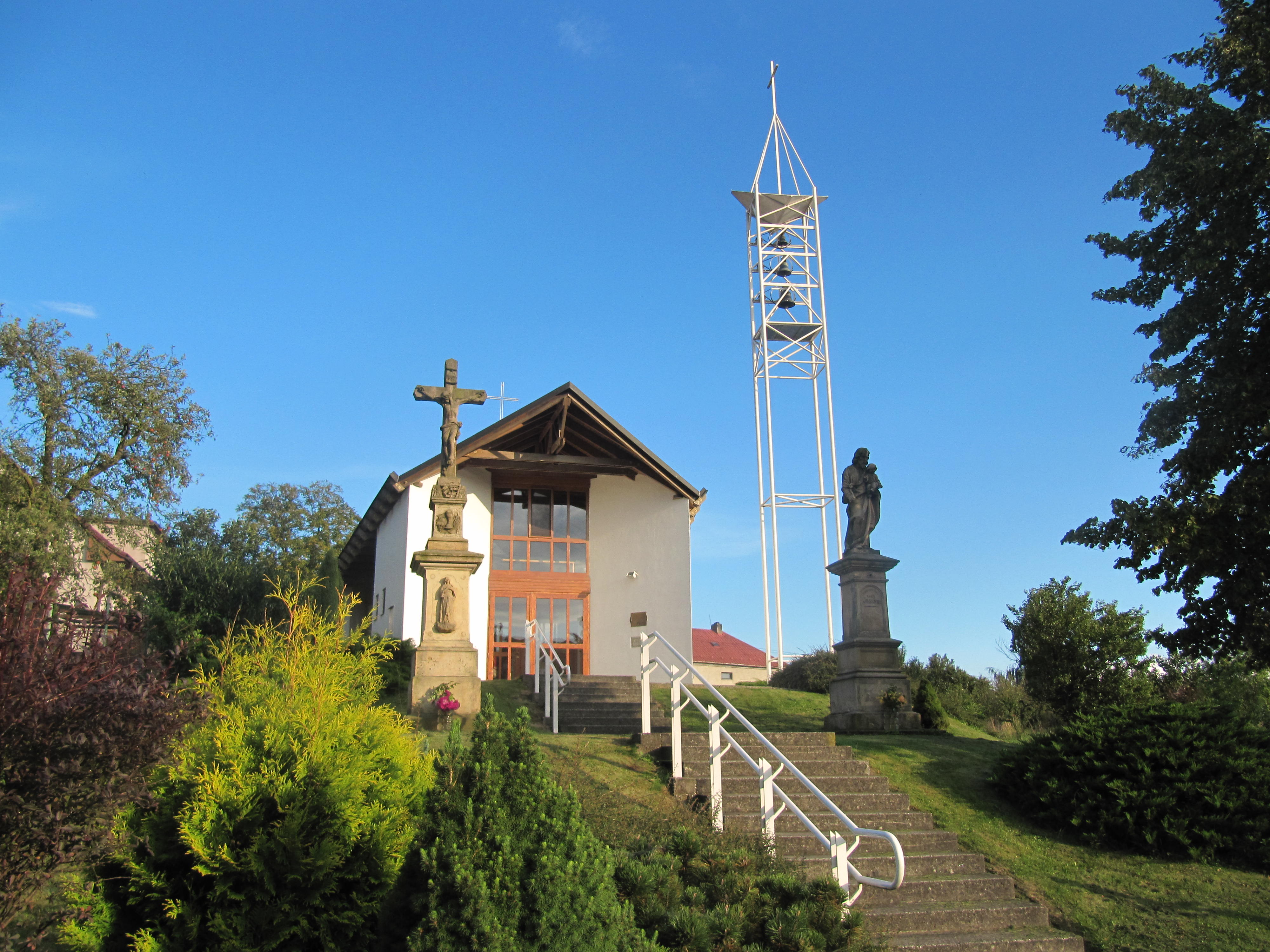 Oldřichovice in Zlín District, Czech Republic. Church of St. Zdislava from 1997 by architect Martin Tomešek. Interior decoration is the work of the painter Miroslav Boroš.